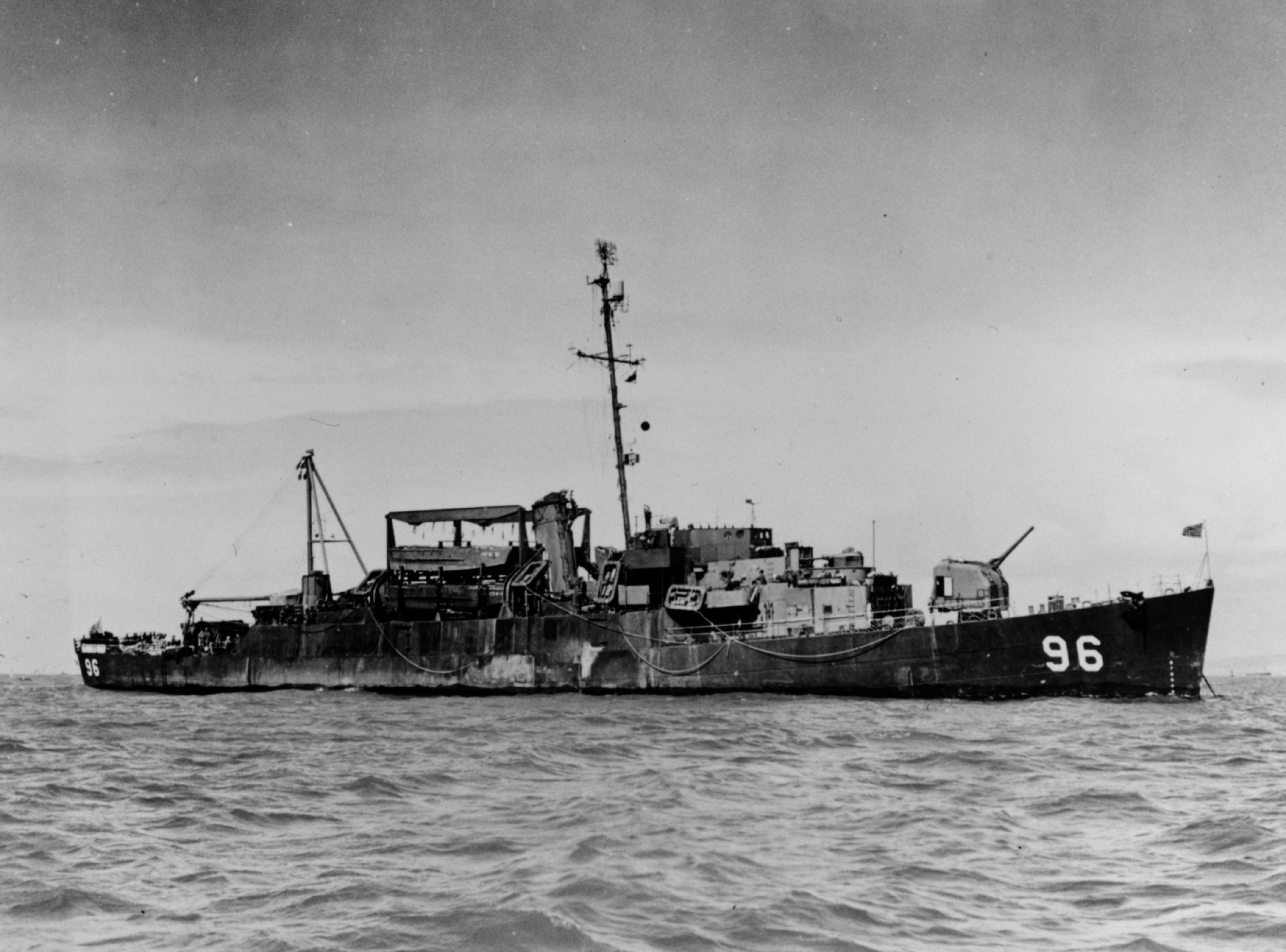 The U.S. Navy high-speed transport USS Ray K. Edwards (APD-96) at anchor in San Francisco Bay, California (USA), in 1945-1946.